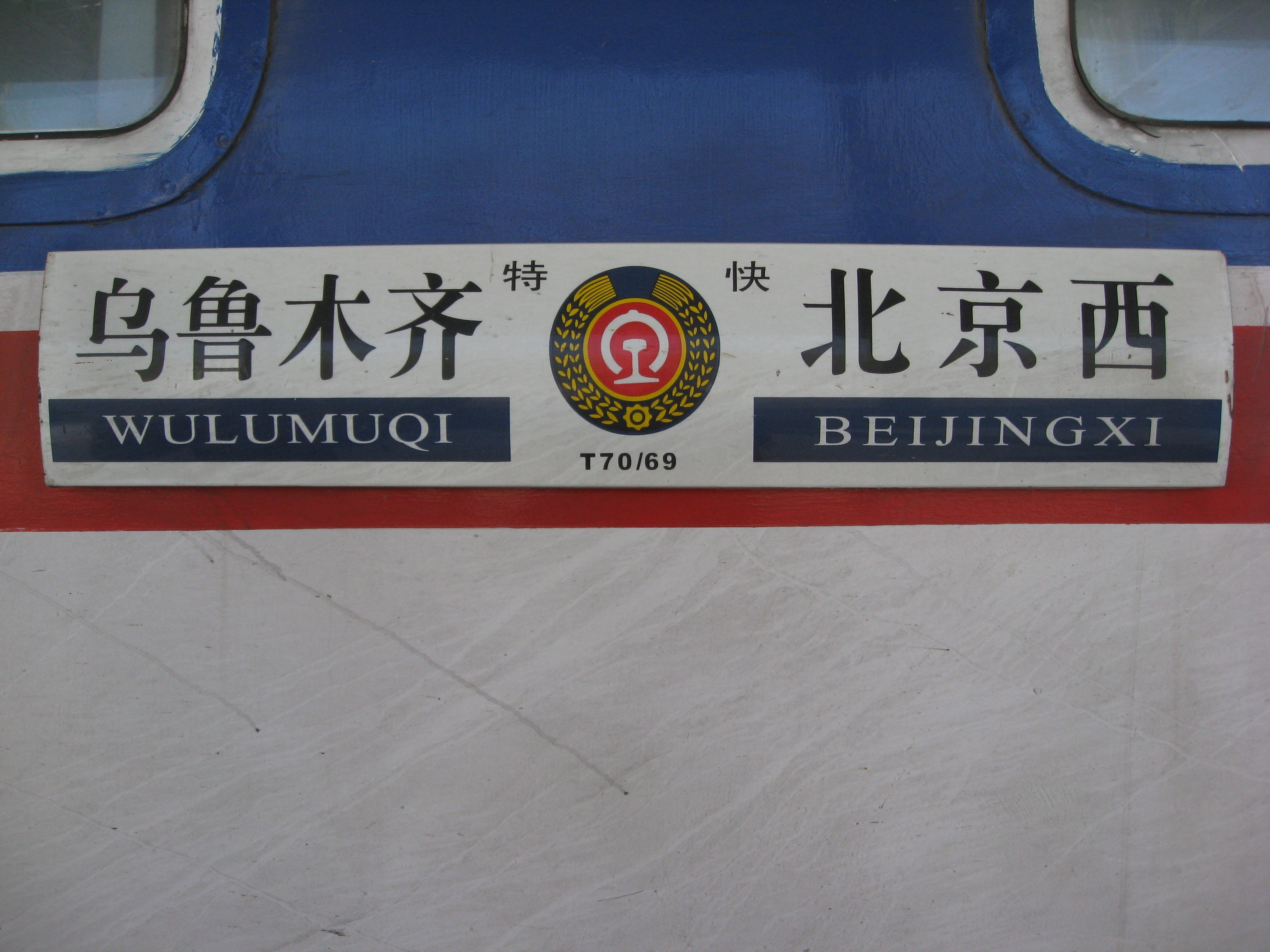 Train to Xinjiang Province / From Beijing, we took a 45+ hour train west to Urumqi, the largest city in China's Xinjiang Province. Xinjiang is an "autonomous region". Most of the people who live there are not Chinese but belong to Central Asian cultures, such as Uigur (the majority), Kyrgyz, Kazak and Tajik.